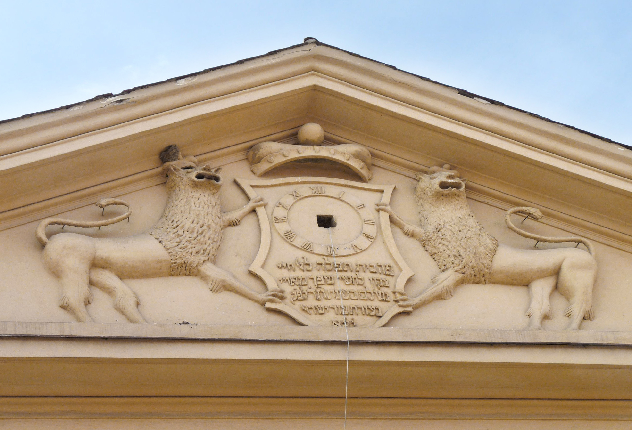 Gable of the former synagogue in the town of Volyně, Strakonice District, Czech Republic.